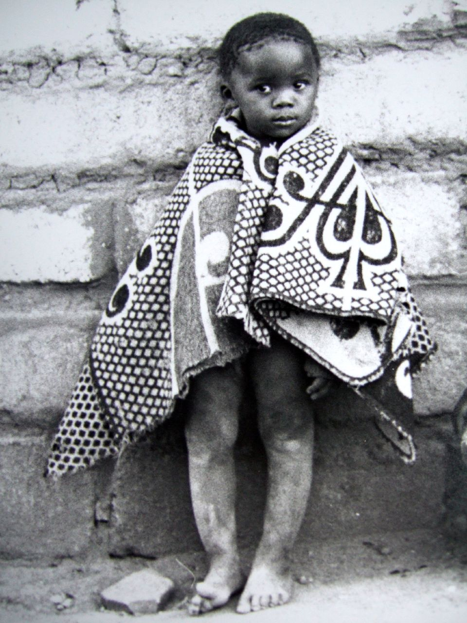 Retsilisitsoe Nthunya, child of Lesotho. Original Flickr description: Retsilisitsoe is M'e Mpho Nthunya's youngest grandchild, born to M'e Mpho's daughter-in-law five years after the death of M'e Mpho's son. In Lesotho, less is made of the question of "legitimacy" than in Western cultures. The daughter-in-law lives with her husband's mother, and any children she has become her husband's descendents. In 1992, Retsilisitsoe already had the bearing of a chief in his little rag of a blanket.